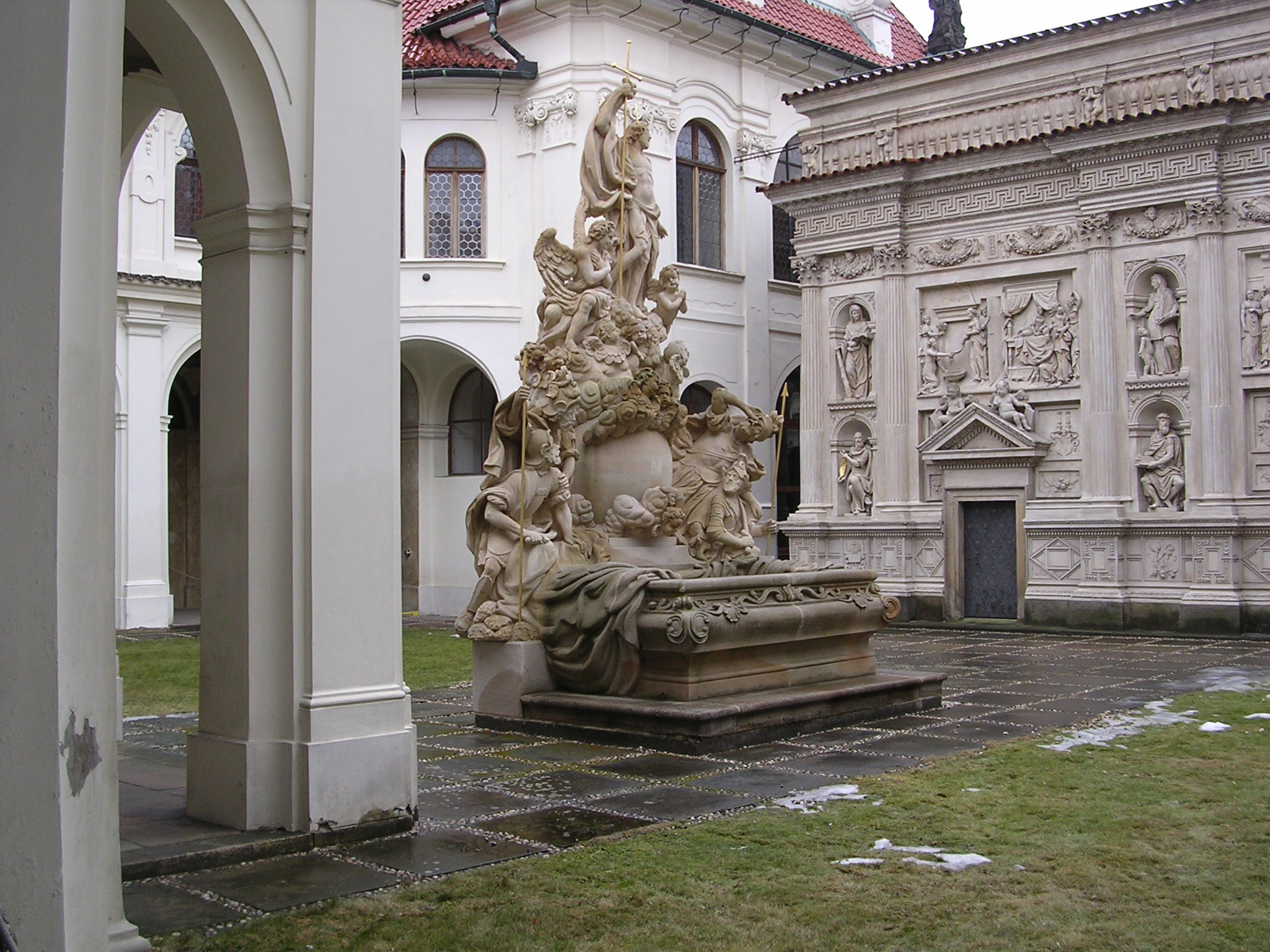 Prague's Loreta Courtyard - Fountain with sculptural group of the Resurrection and the Santa Casa